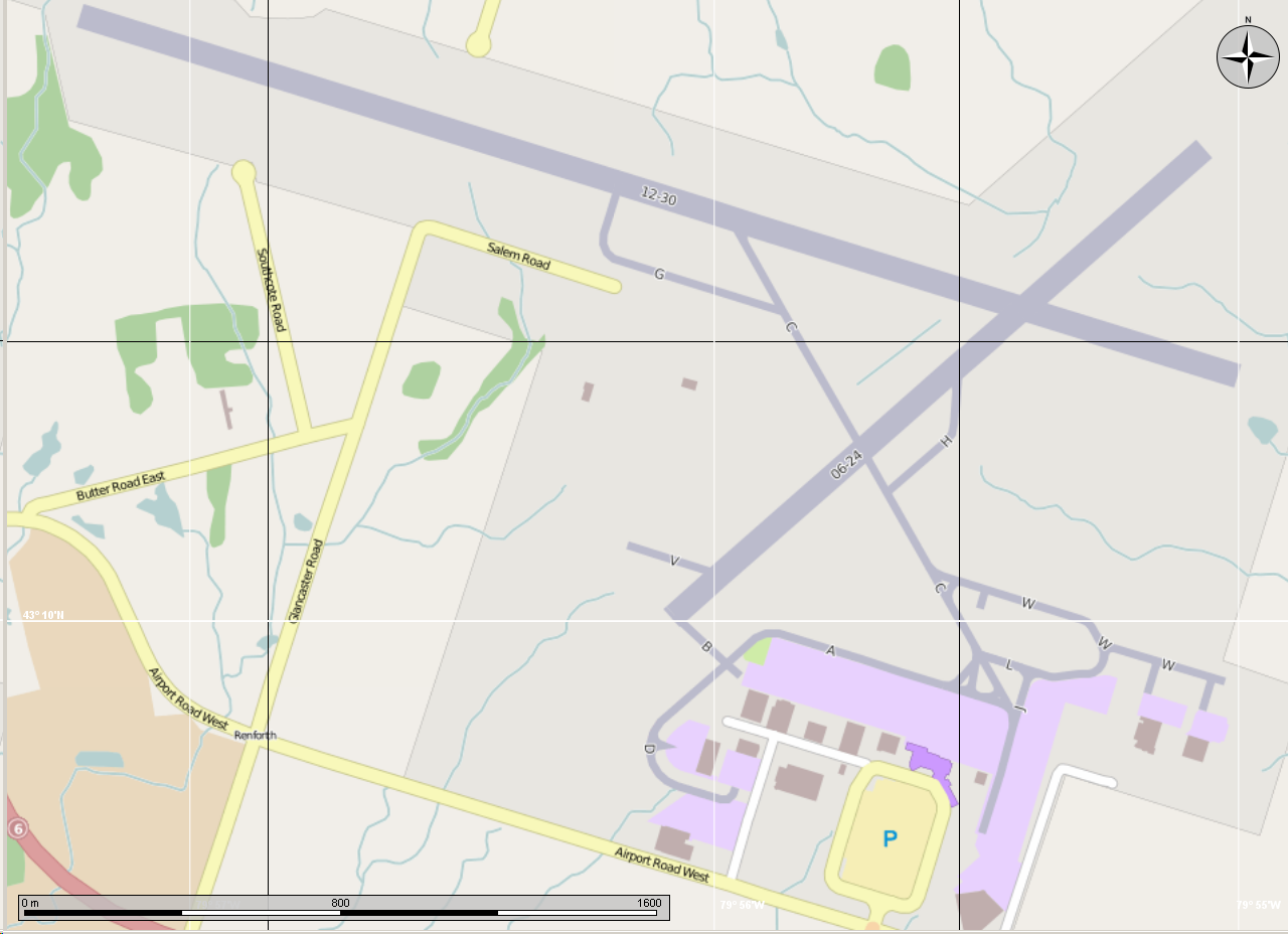 Hamilton International Airport in Hamilton, ON. Open Street Map from the Marble program.